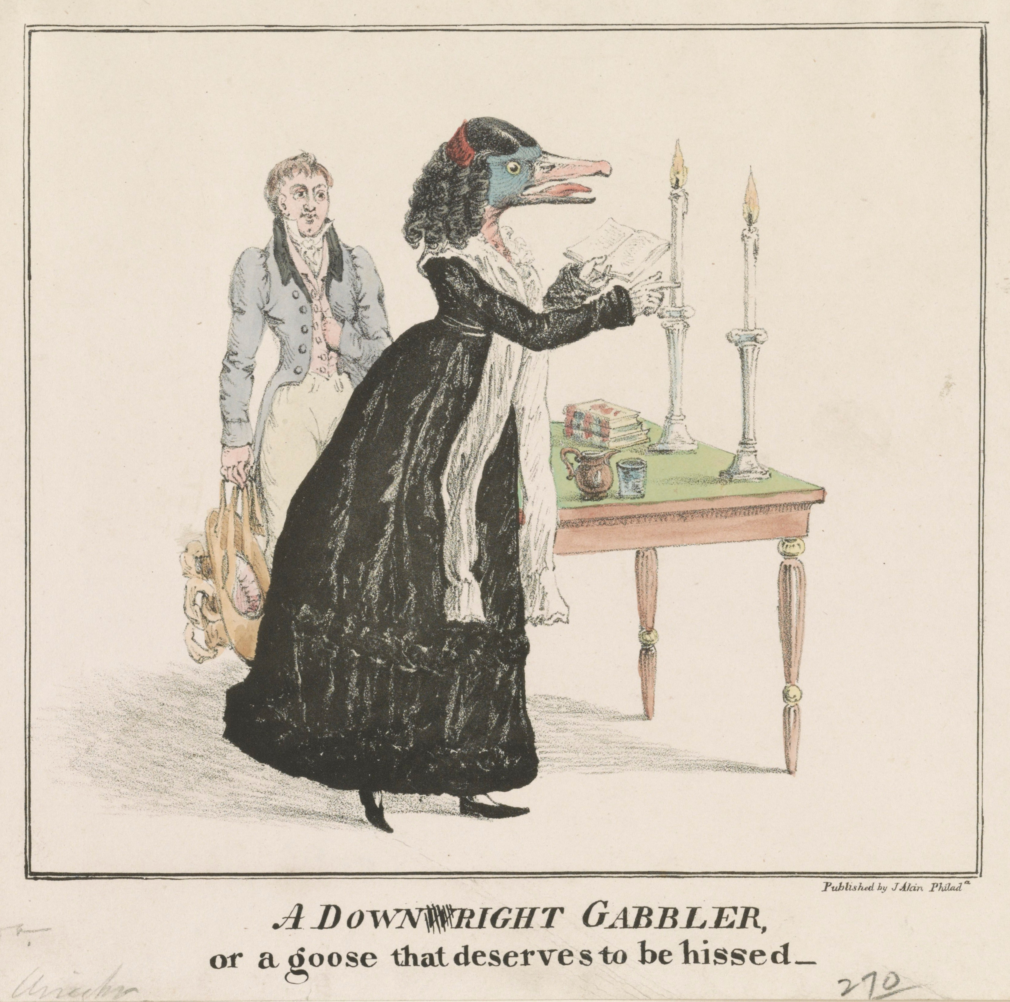 Title: A downright gabbler, or a goose that deserves to be hissed / Published by J[ames] Akin Philada. Abstract/medium: 1 print on wove paper: lithograph with watercolor; image 20 x 19.9 cm.